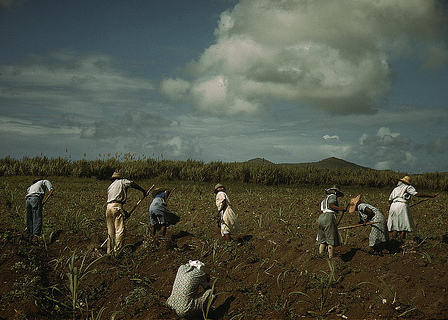 Sugar farmers in the vicinity of Bethlehem, Saint Croix, United States Virgin Islands